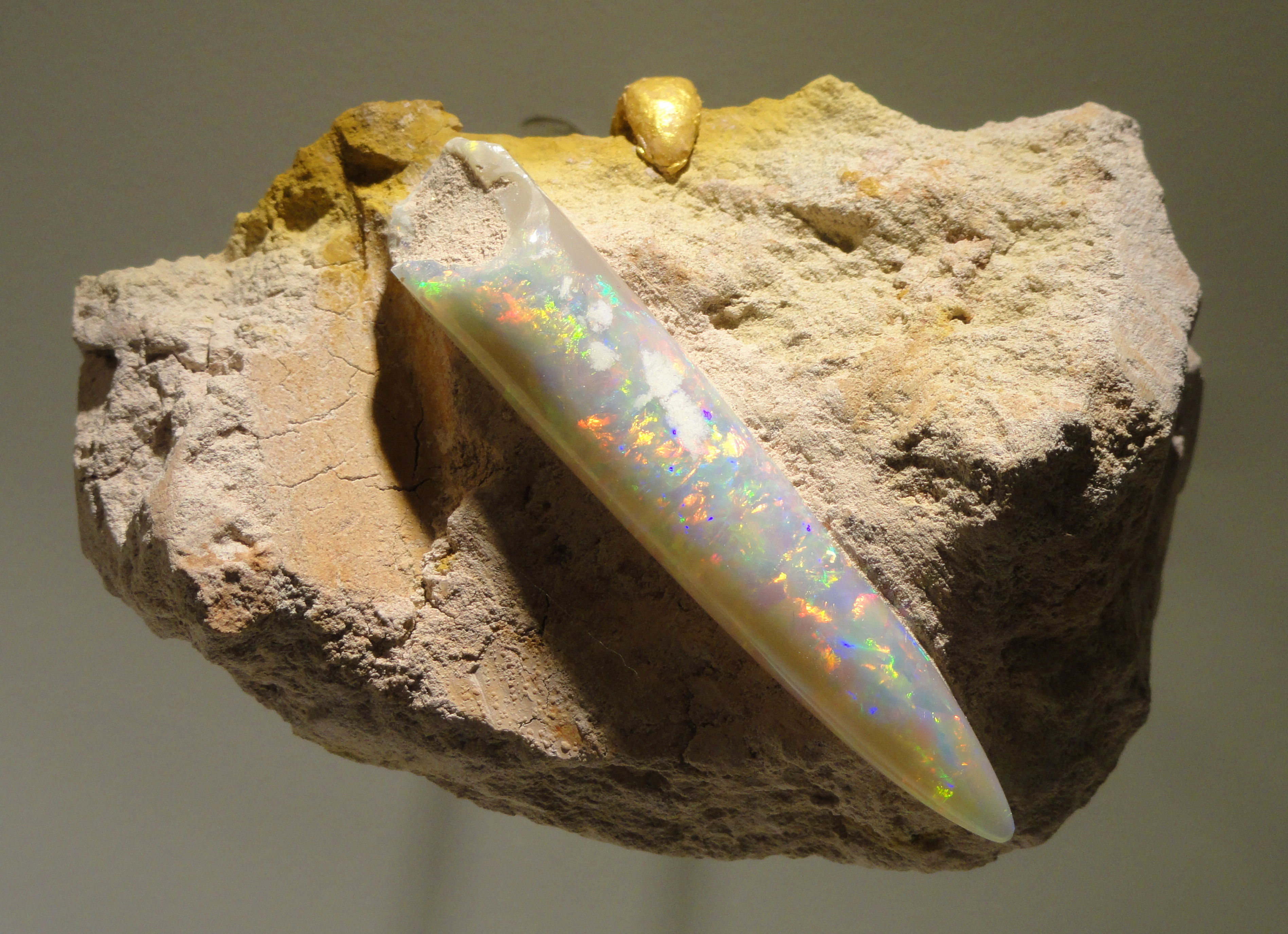 Exhibit in the Houston Museum of Natural Science, Houston, Texas, USA.